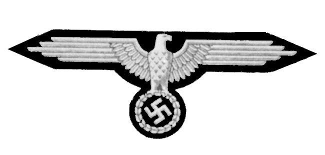 2nd pattern SS National Emblem (Hoheitszeichen)